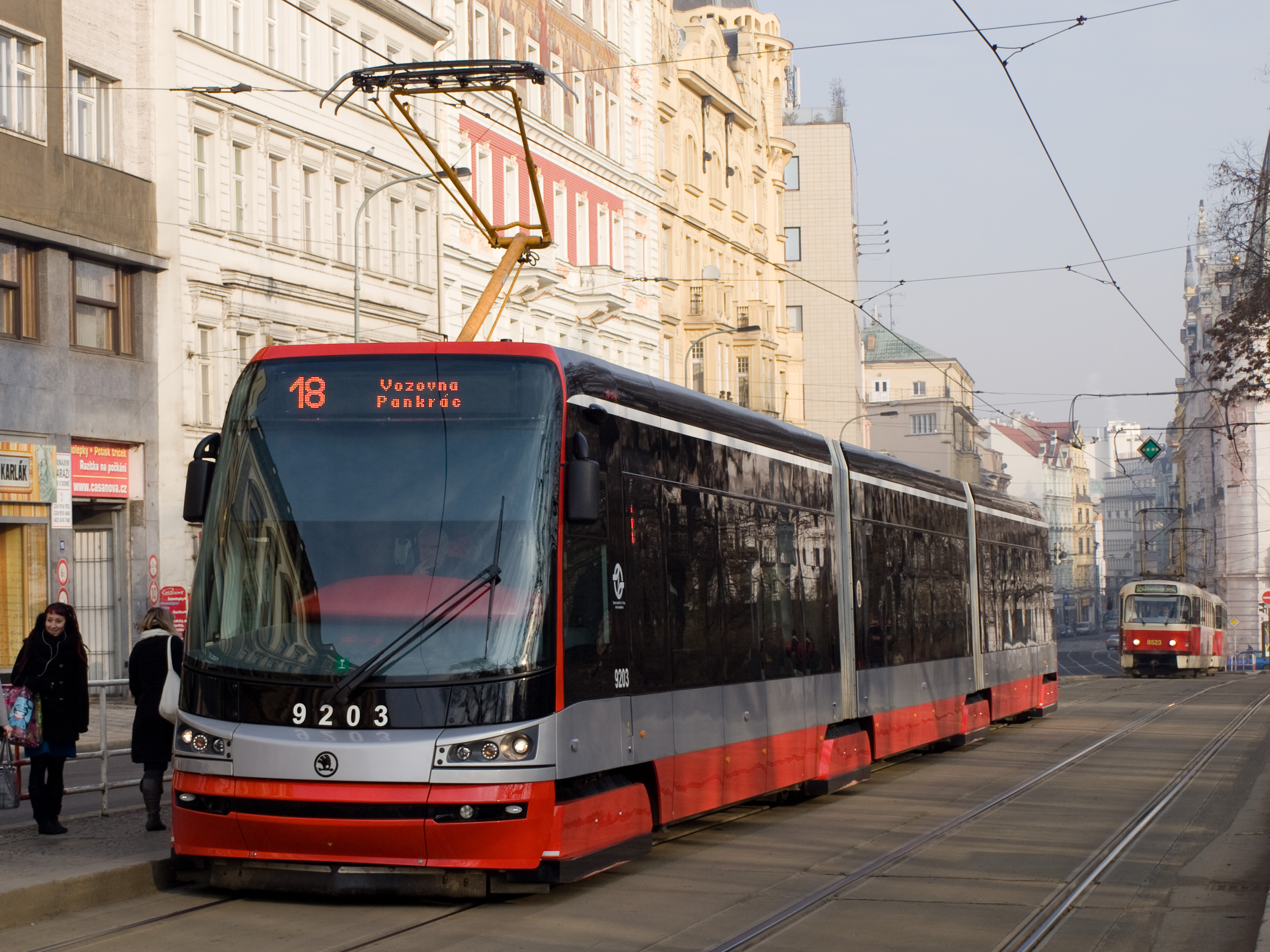 Škoda 15T in Karlovo náměstí tram stop, Prague